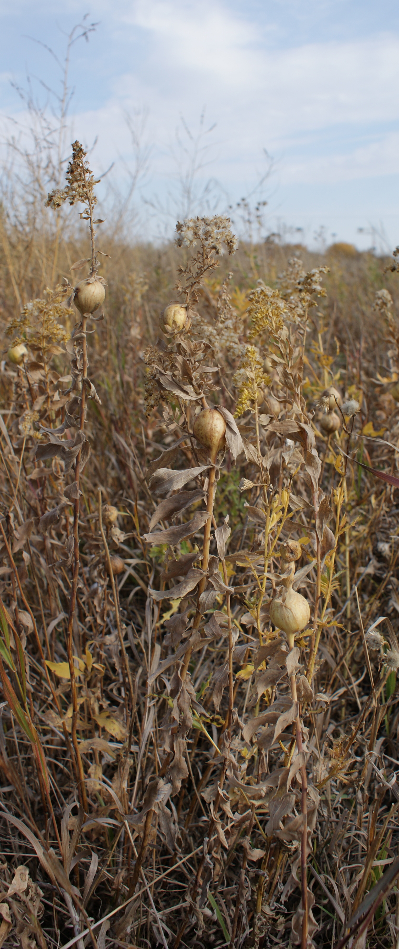 Fruiting body of a solidago or Golden Rod showing achene and pappus which the yellow flowers turn into. Note the ball shaped bump on the stem. This is a gall formed on the stems of this goldenrod for larva of the Goldenrod Gall Fly, Arthropoda, Insecta, Diptera, Tephritidae, Eurosta solidaginis. Located to the north of the Saskatchewan Railway Museum near Saskatoon